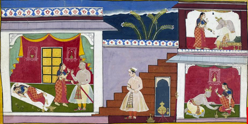 "In the second book, the Book of Ayodhya (Ayodhya Kand), Kaikeyi has become jealous of Rama as his father has announced that he is to be installed as regent. In this picture, she is first seen on the left lying on the ground in a dishevelled and angry state having stripped herself of her ornaments. Dasaratha is overcome at the sight of her and promises to do anything she wants to appease her. She rises from the ground to demand that her son Bharata be promised the throne and Rama be exiled for fourteen years. Rama was less than sixteen years old at this time. On the right Dasaratha is first seen bemused seated on a couch as he listens to Kaikeyi's demands and then below kneeling at her feet beseeching her to change her mind. The action revolves around the still figure of the minister Sumantra, who makes a pictorial link with the next episode, since he is sent by the Brahmins to awaken the king to begin the consecration of Rama as regent."